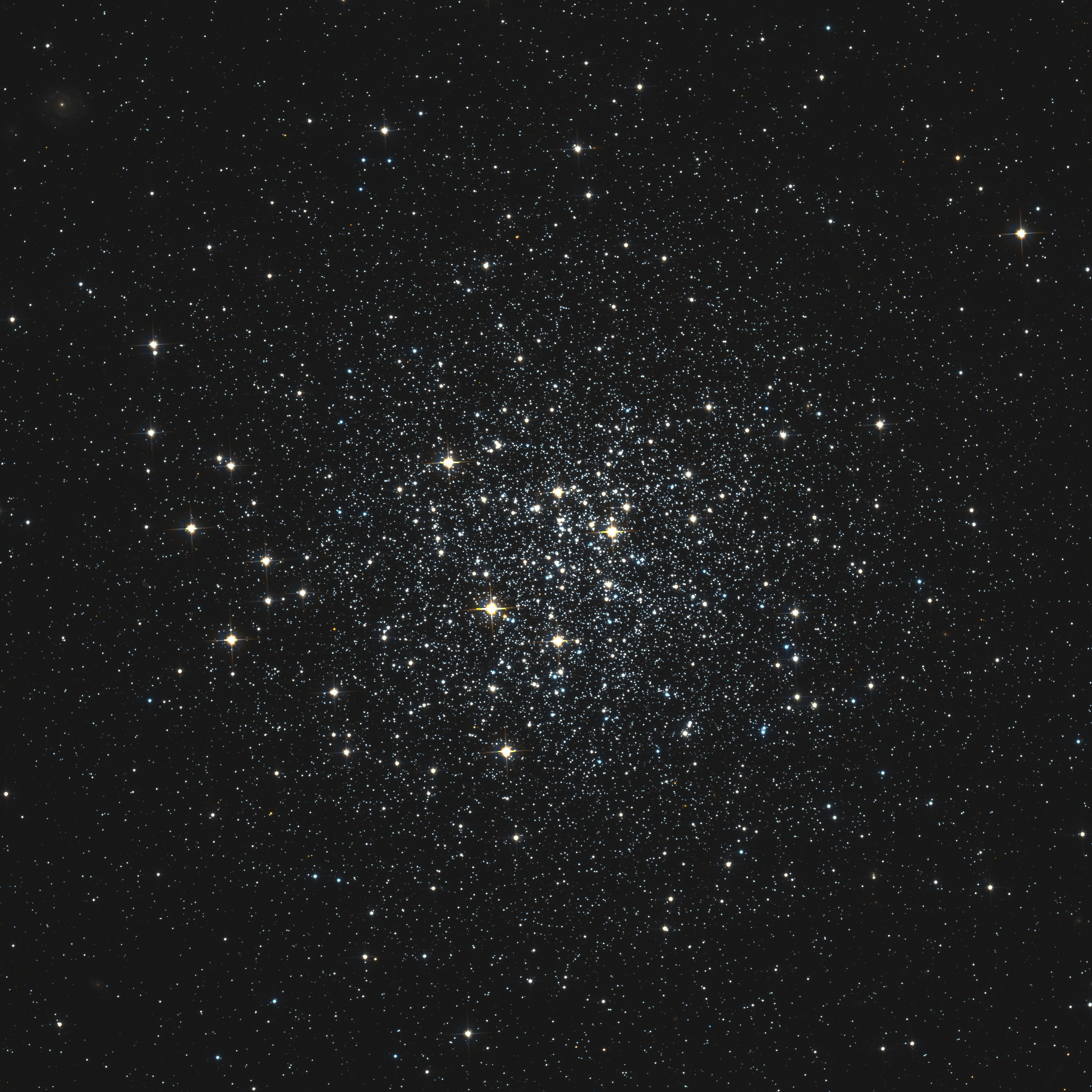 Messier 72 - globular cluster. The image was produced by WikiSky's image cutout tool out of Hubble Space Telescope data. Source url: [1] Hubble's source: [2].